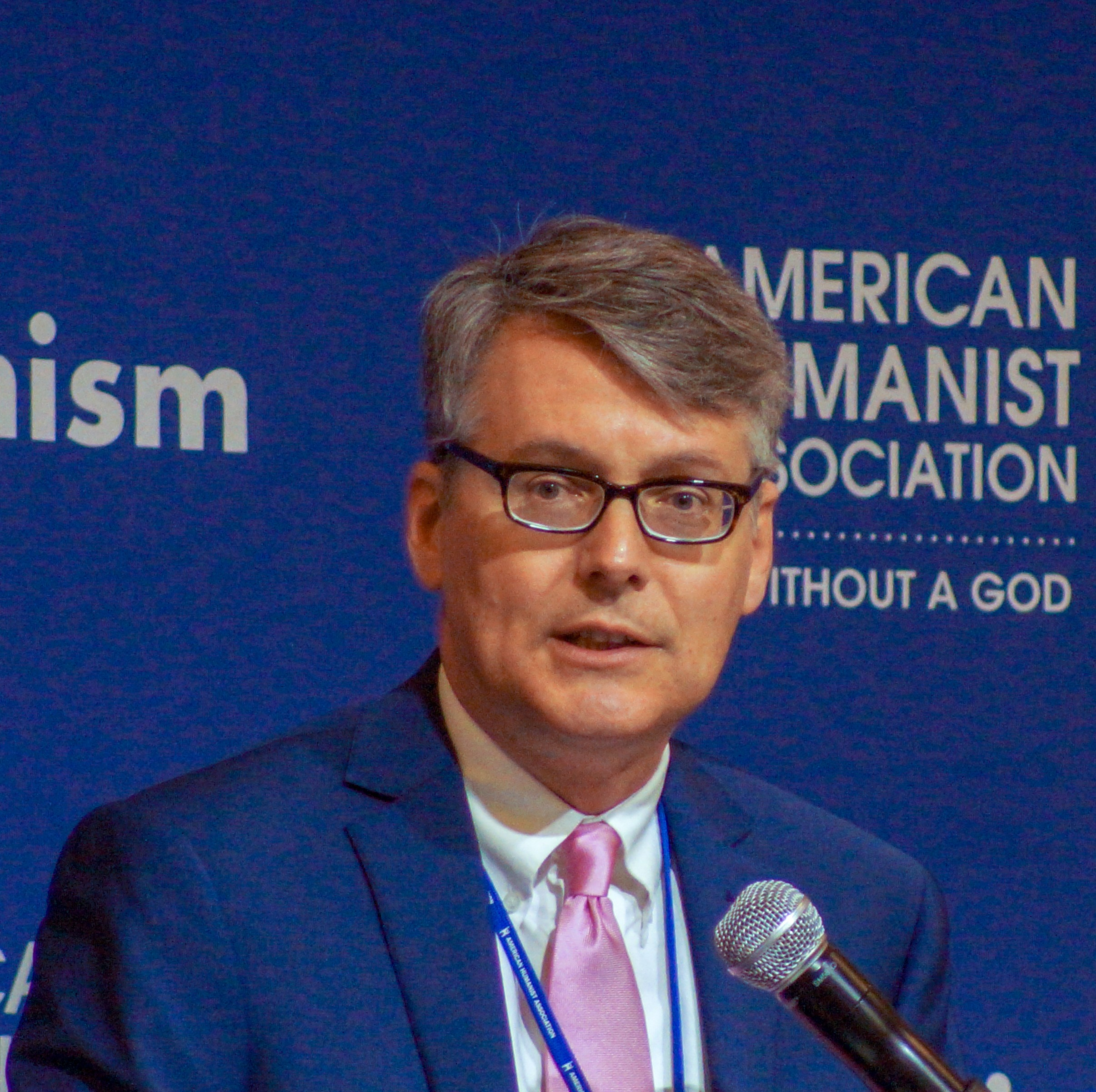 Rob Boston speaking at the AHA conference in May 2018